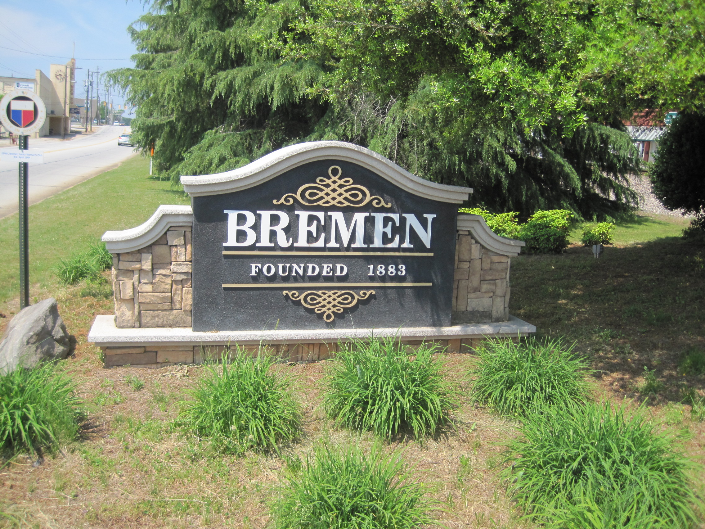 Bremen Georgia city sign